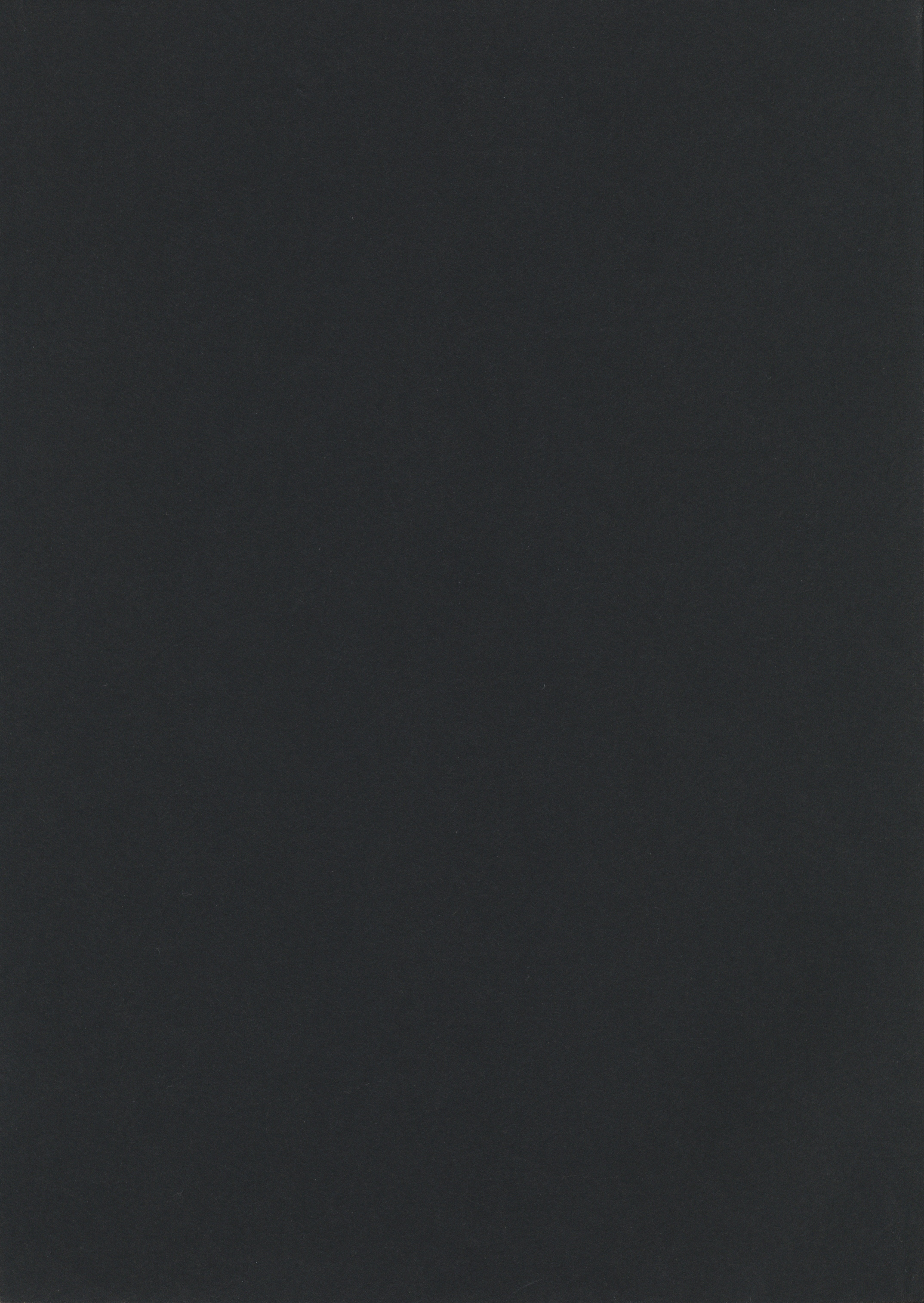 Cybele Cover